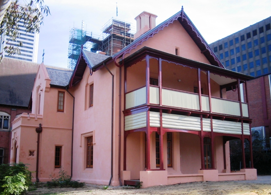 Perth Deanery, St georges Terrace, Perth